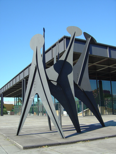 Sculpture at the Neue nationalgalerie, Berlin, Germany